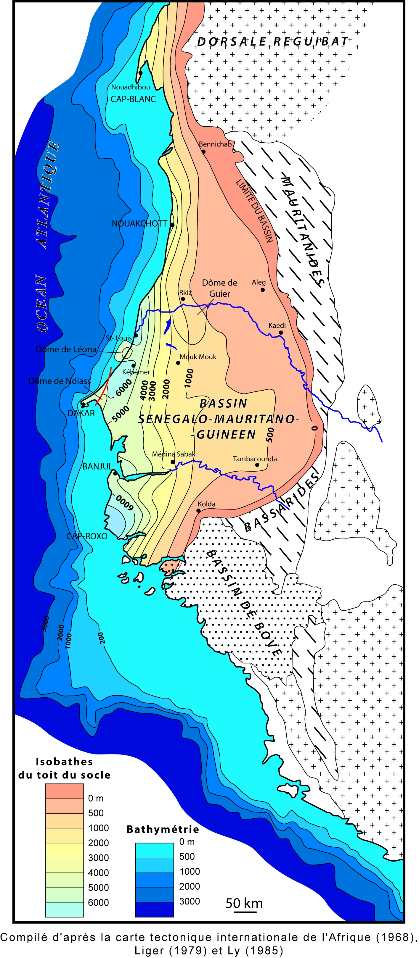 Map of the Senegalo-Mauritano-Guinean Bassin